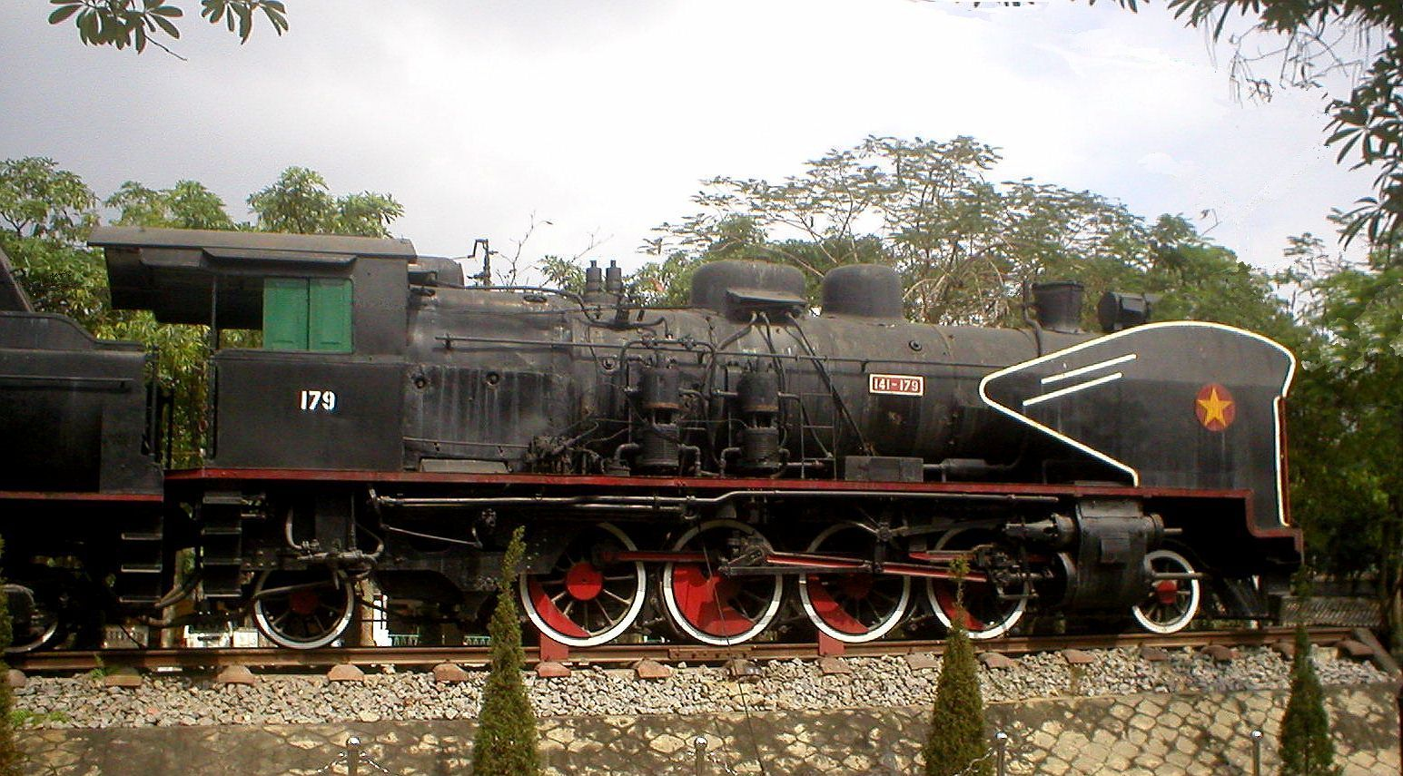 Old locomotive exposed in the Vinh (Vietnam) railway station Myself-made picture. January 2006 Siren-Com 04:46, 26 January 2006 (UTC) Undetermineted model